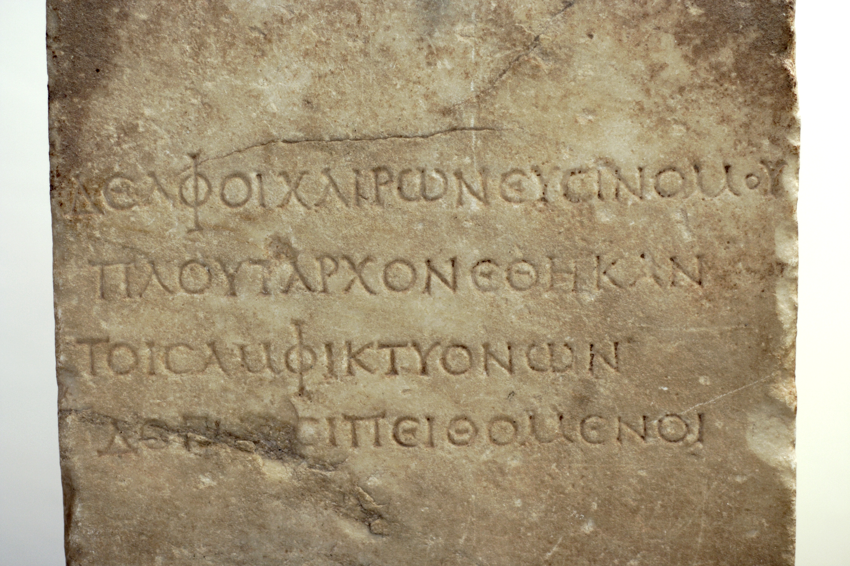 Stela of Plutarch, circa 100 AD. Detail of the inscription that reads: ΔΕΛΦΟΙ ΧΑΙΡΩΝΕΥΣΙ ΝΟΜΟΥ ΠΛΟΥΤΑΡΧΟΝ ΕΘΗΚΑΝ ΤΟΙΣ ΑΜΦΙΚΤΙΟΝΩΝ ΔΕΛΦΟΙΣ ΠΕΙΘΟΜΕΝΟΙ The engraved inscription on the marble pillar reveals that this votive with the bust of Plutarch was set up by the people of Delphi and the citizens of Chearonea in honour of the great author and priest of Apollo. Name of Plutarch is very easy to read at the beginning of the second line (in the accusative: PLOYTARCHON). Archaeological Museum of Delphi, N 4070.